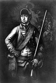 An old, non-authentic portrait of Robert Rogers created well-over a century ago